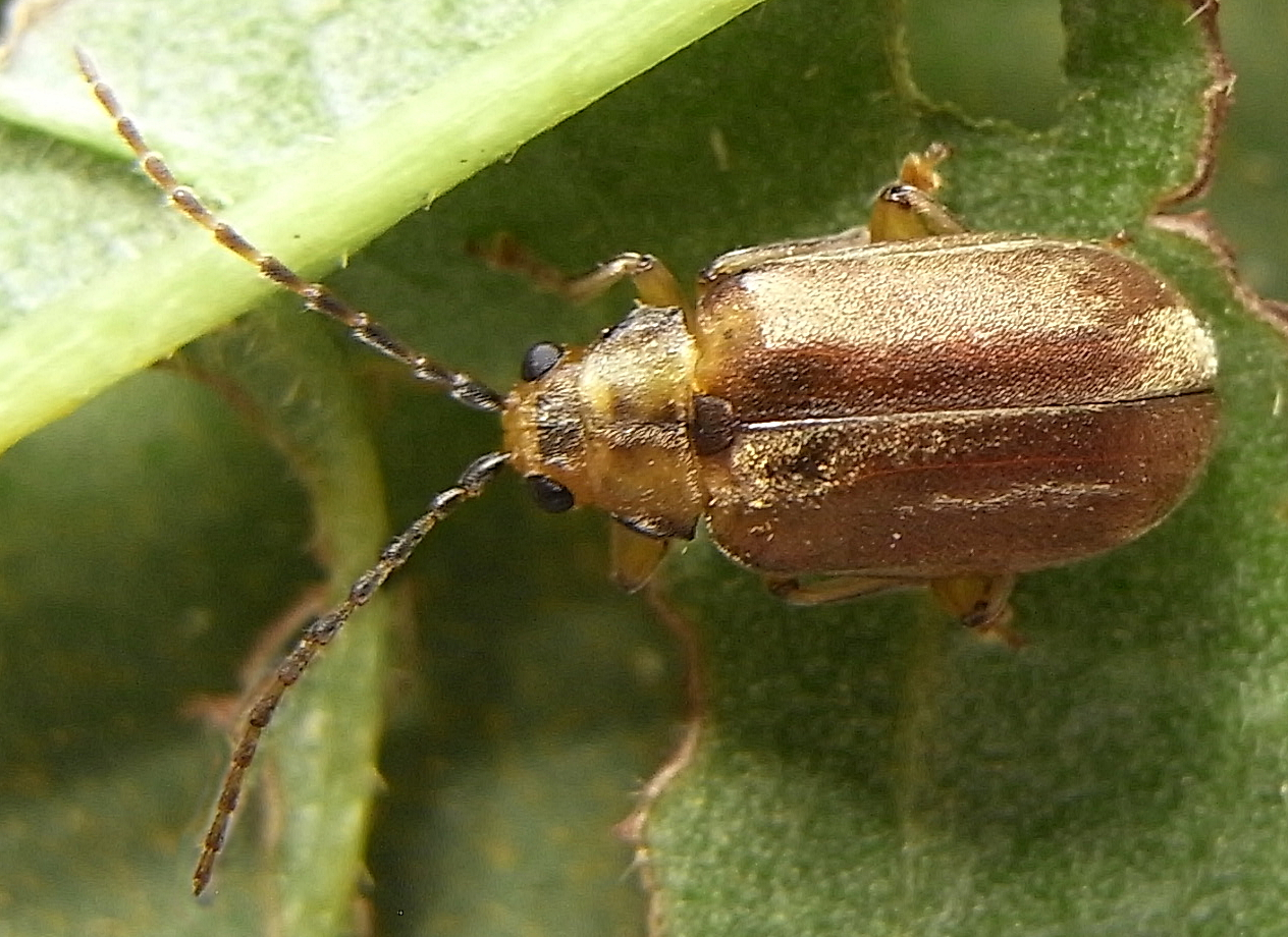 Pyrrhalta viburni from Southern Germany on Viburnum Ricoh R8